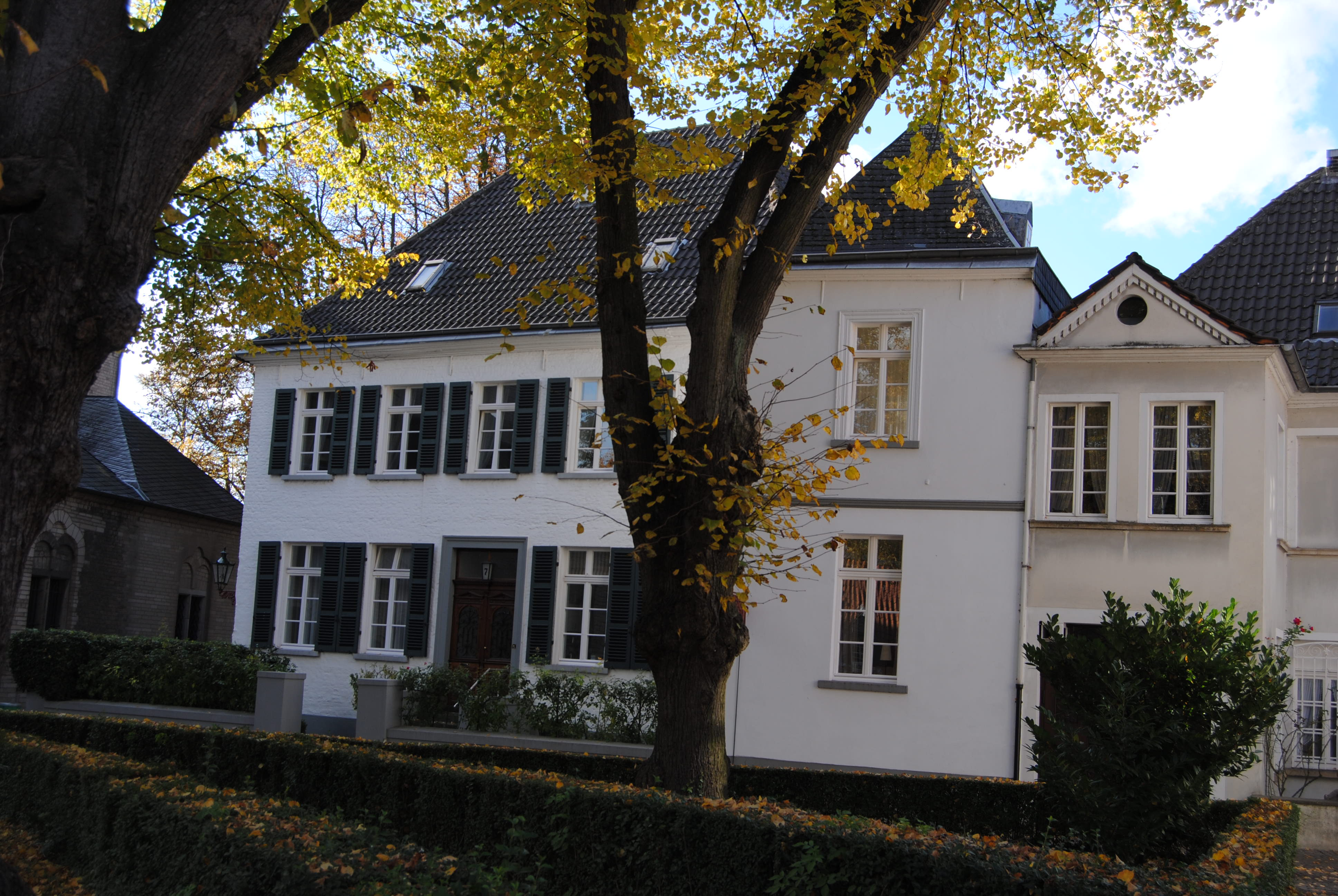 This photograph was taken with a Nikon D3000. This image shows a heritage building in Germany, located in the North Rhine-Westphalian city Düsseldorf.